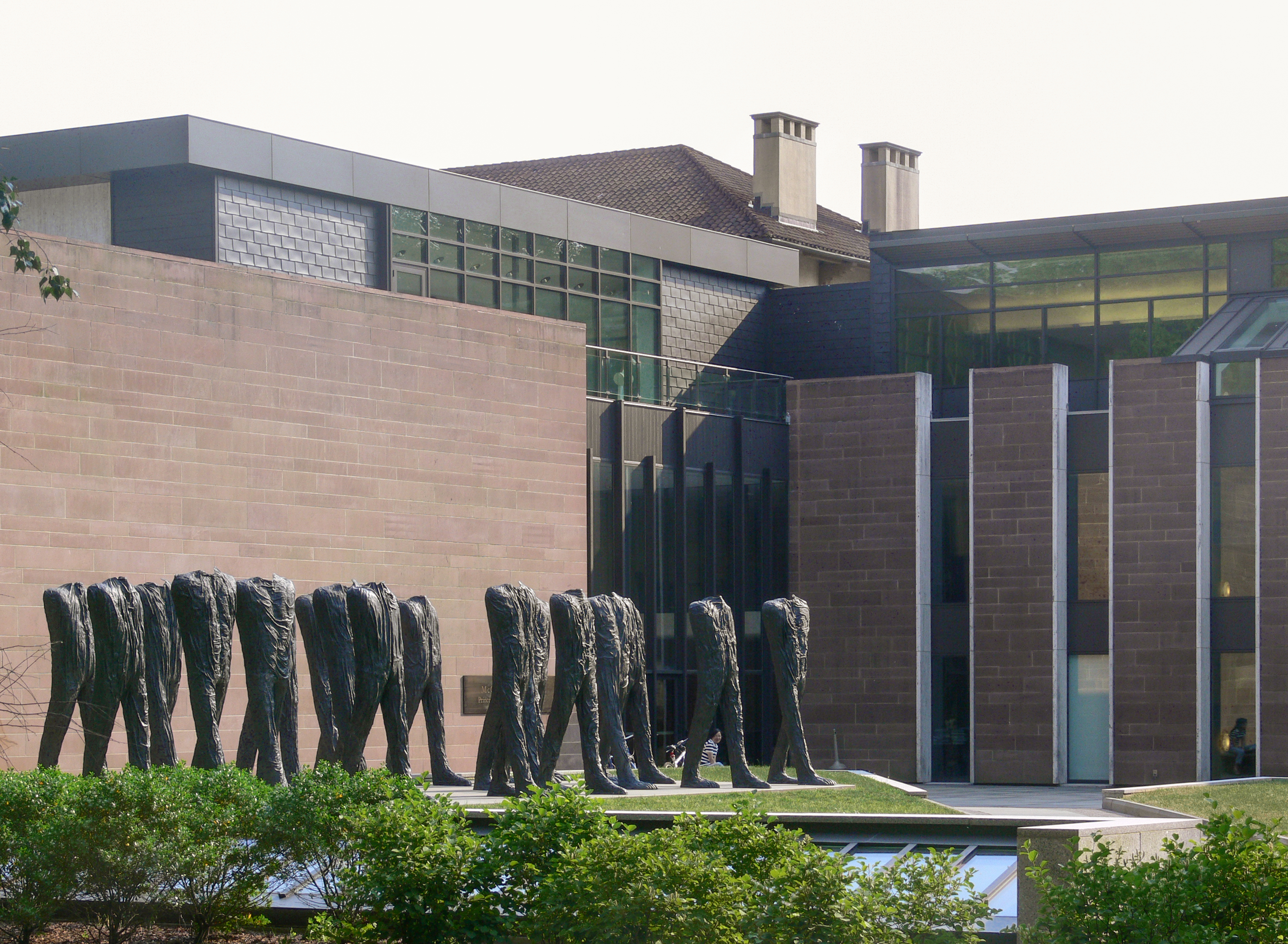 Princeton University Art Museum (McCormick Hall) Princeton University, Princeton, New Jersey